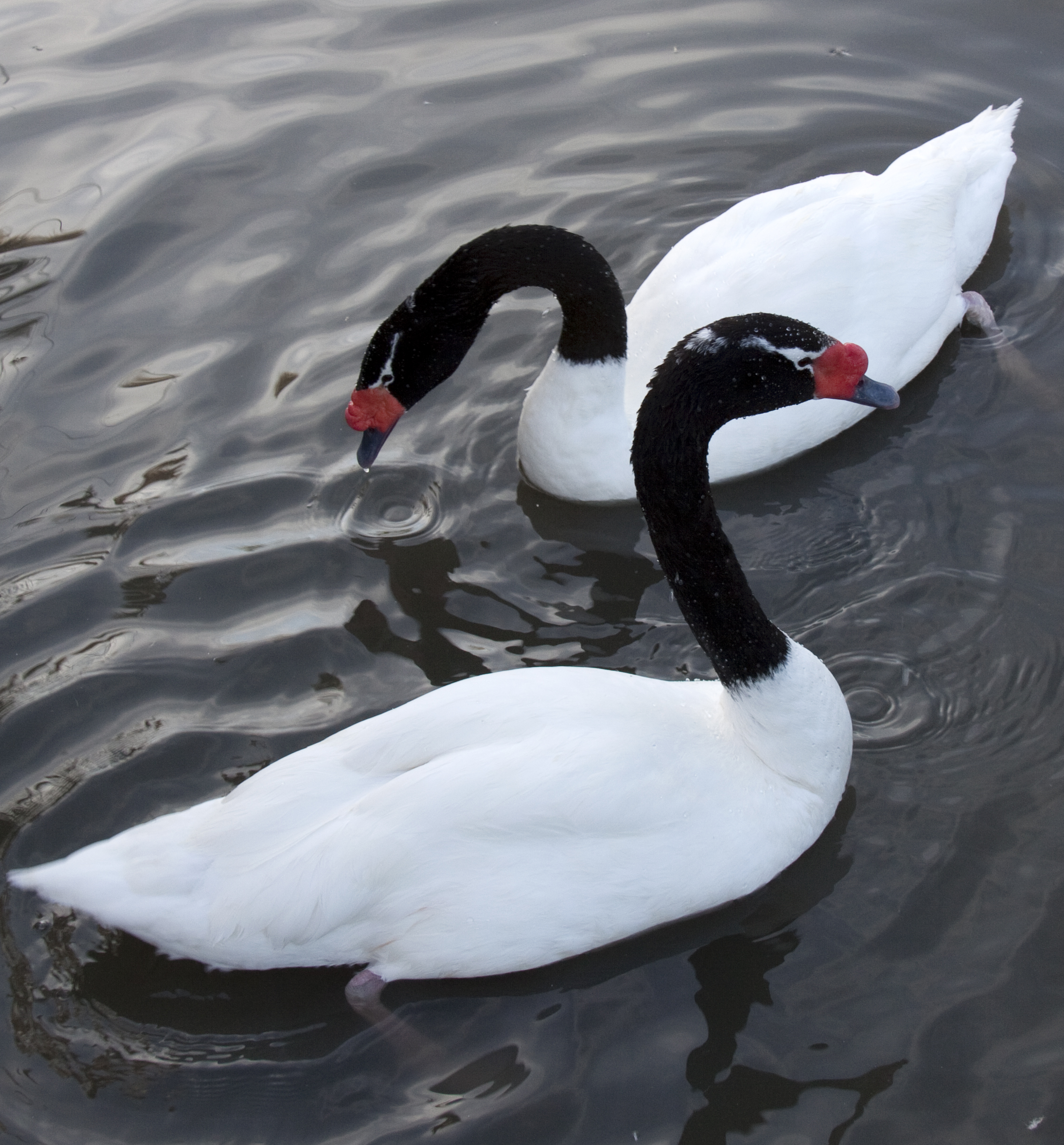 Black-necked Swan